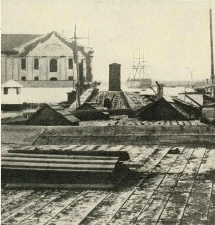 CSS Albemarle {Not the CSS Lady Davis]